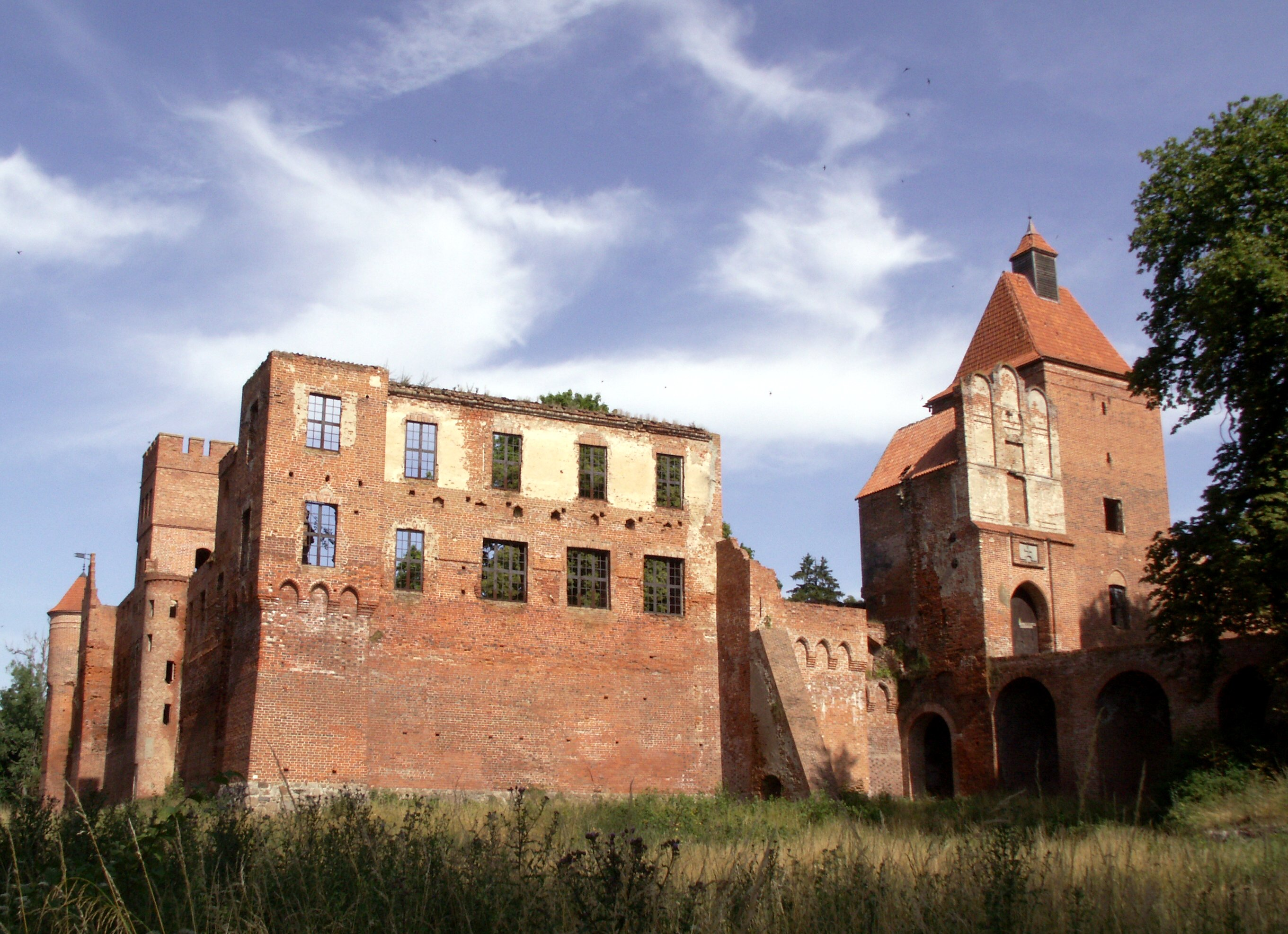 Szymbark Castle